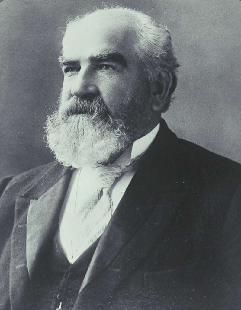 Nicholas John Brown From the 1898 Australasian Federal Convention Album.